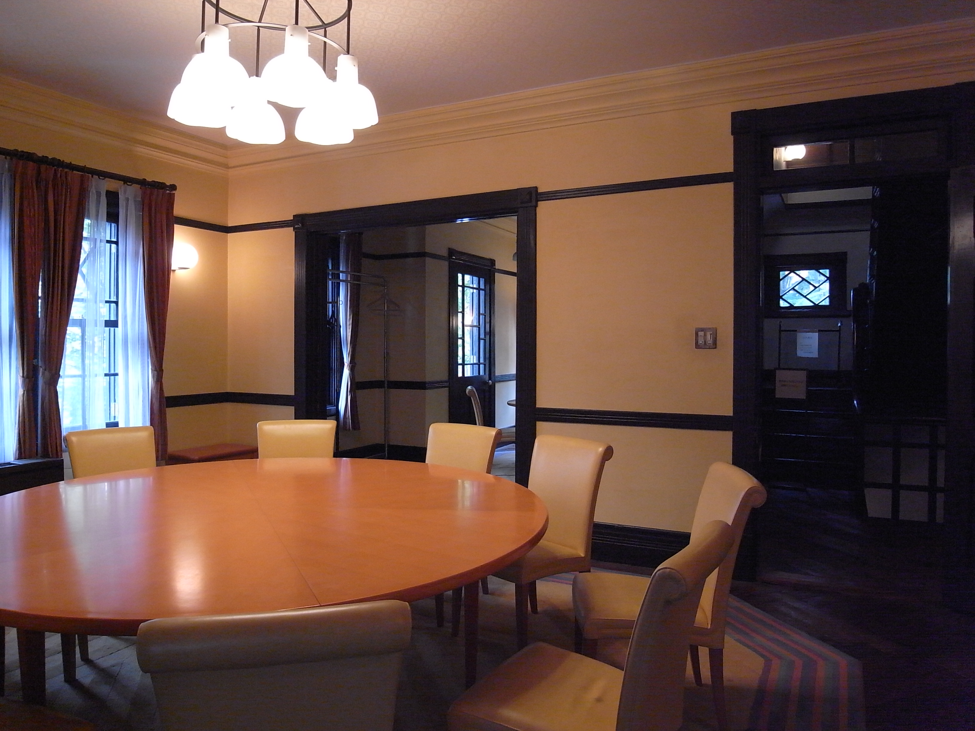 明治学院大学 Meijigakuin University インブリー館2階